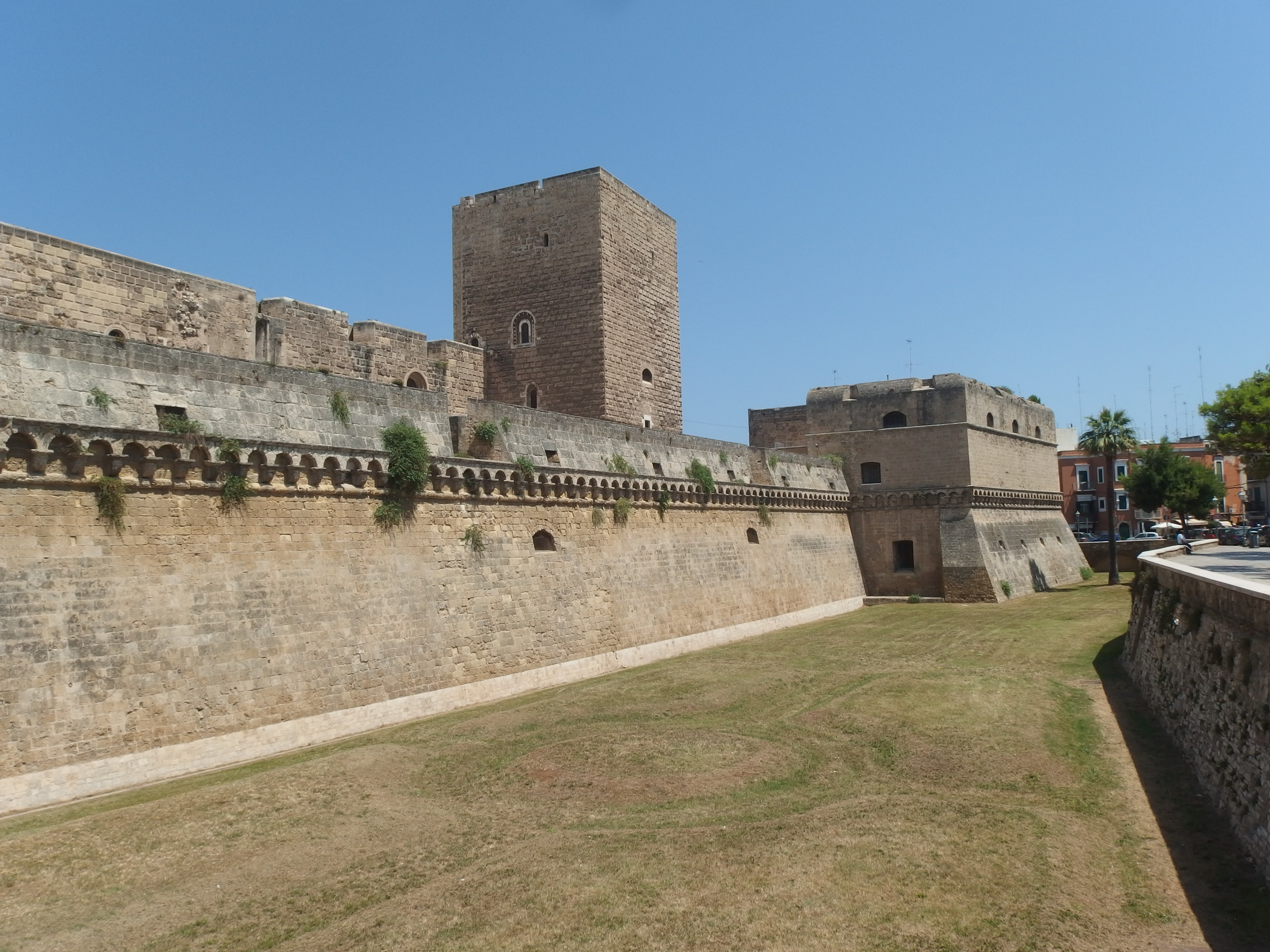 Bari, Apulia, Italy. Castle.